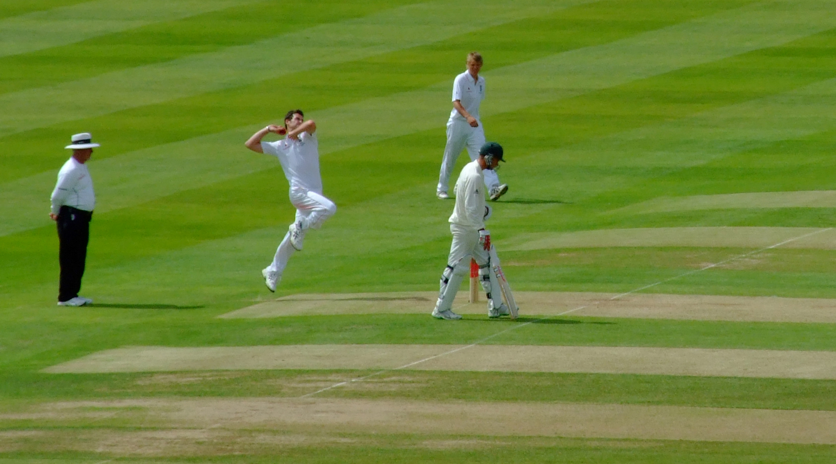 2nd Day, 3rd Test: England vs Australia, Edgbaston, 31st July 2009 James Anderson about to deliver the ball that Peter Siddle will edge behind to Matt Prior.